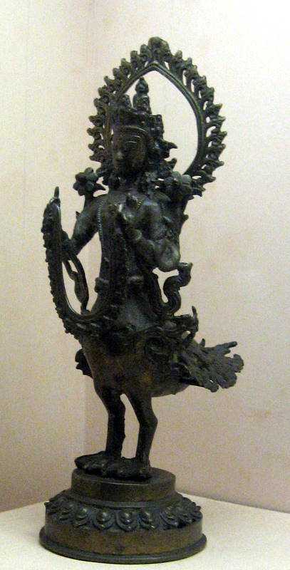 Kinnara